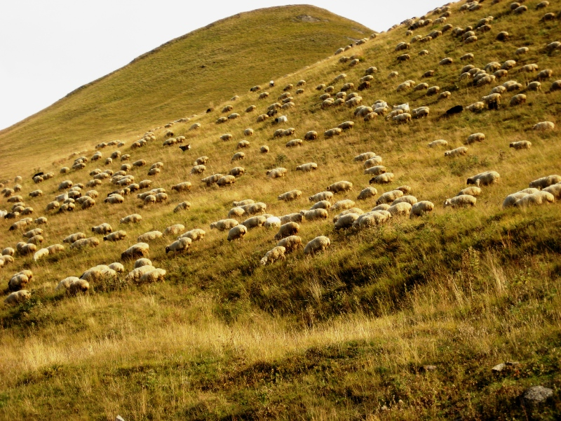 Sheep in northeast Georgia. Georgian name is "tskhvari" (ცხვარი) and "tskhori" (ცხორი) in northeast mountainous dialects